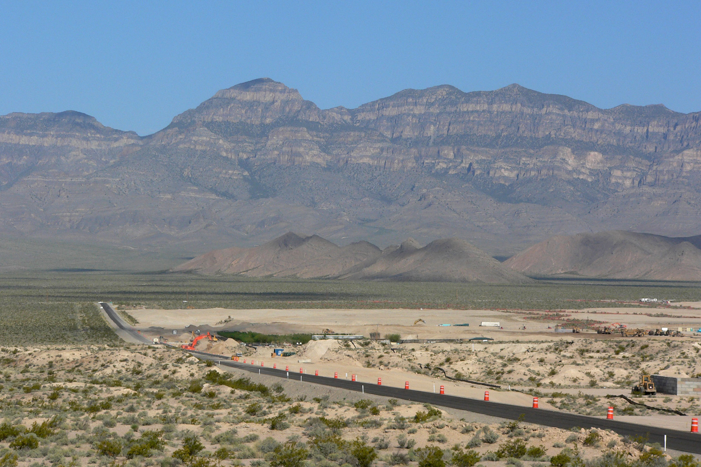 Sheep Range as seen from State Route 168 at Starvation Flat, Coyote Springs development visible on the right